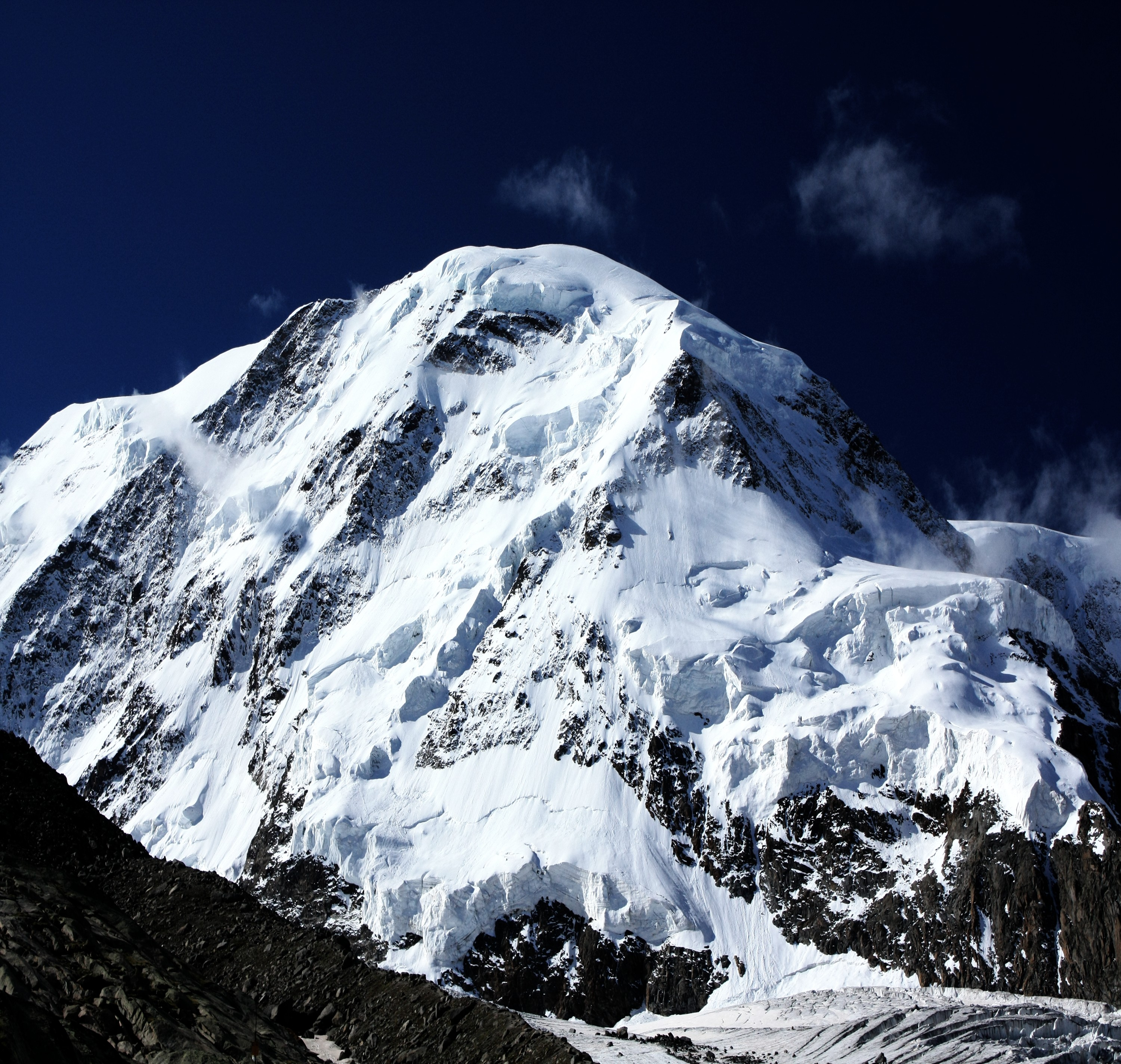 Northern wall of Liskamm, from north-west